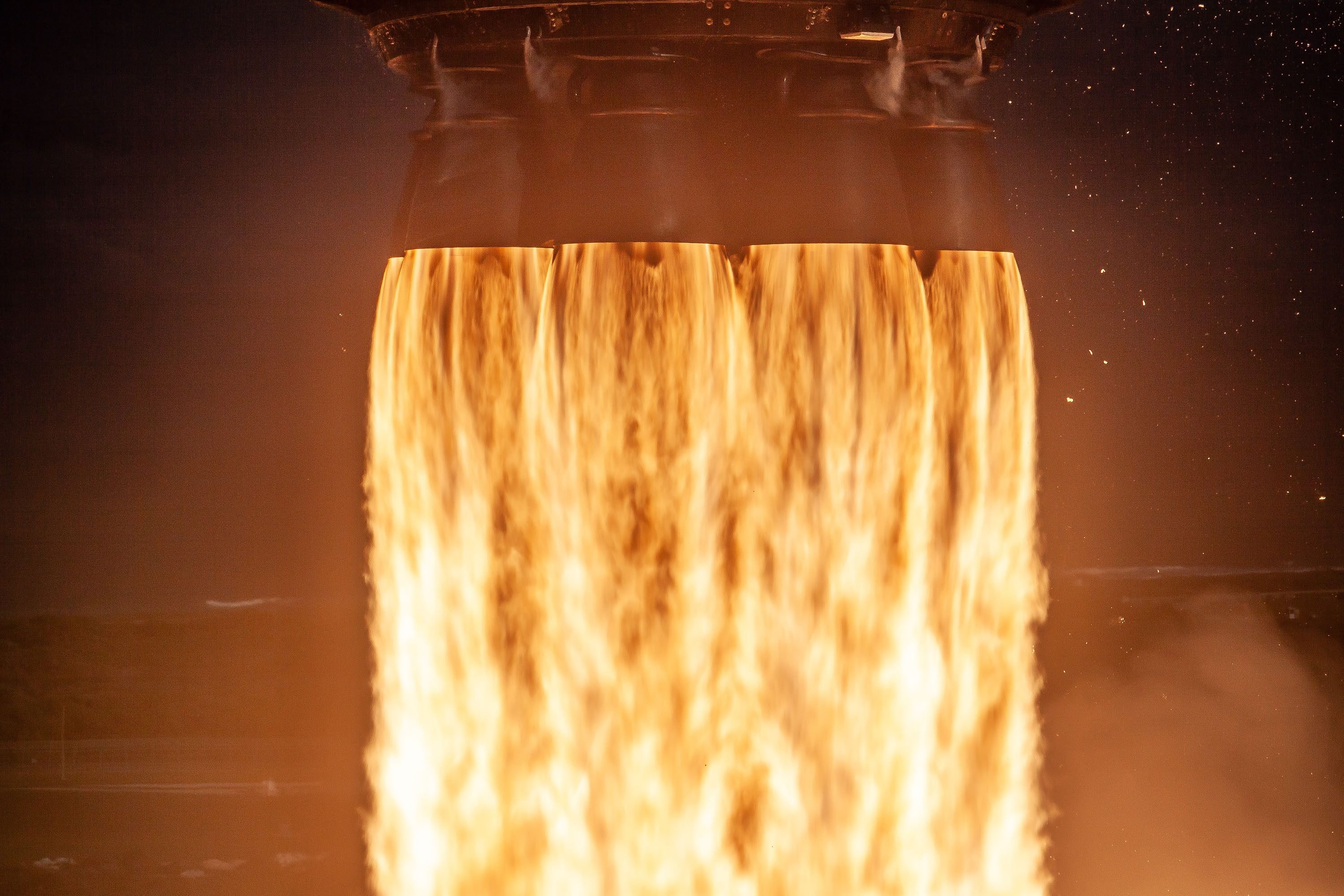 Es'hail-2 Mission